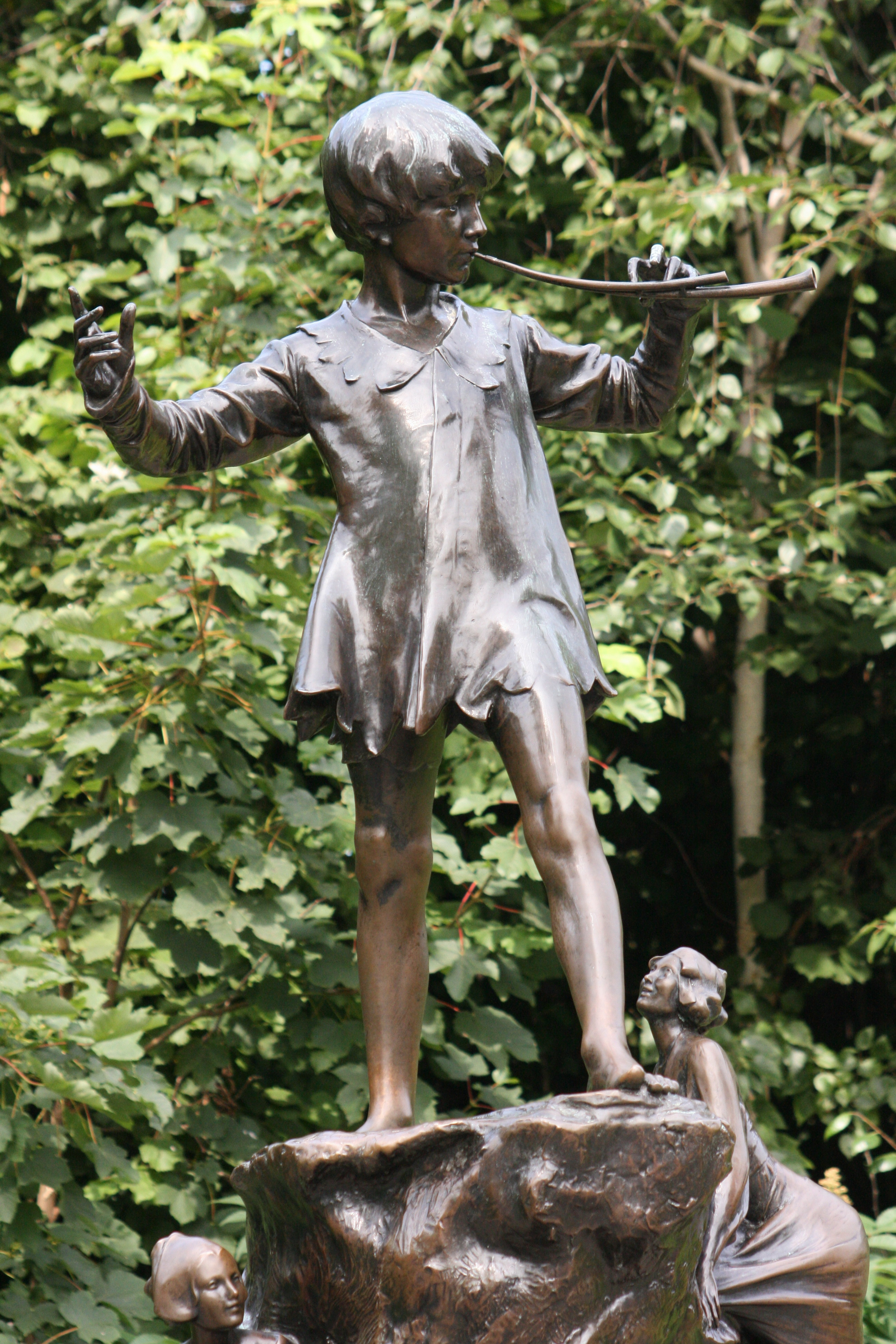 Peter Pan bronze statue by George Frampton (1912) beside the long water in Kensington Gardens (London). Detail